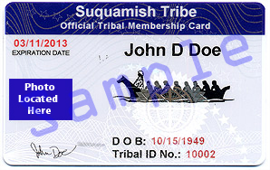 American Tribal ID Card